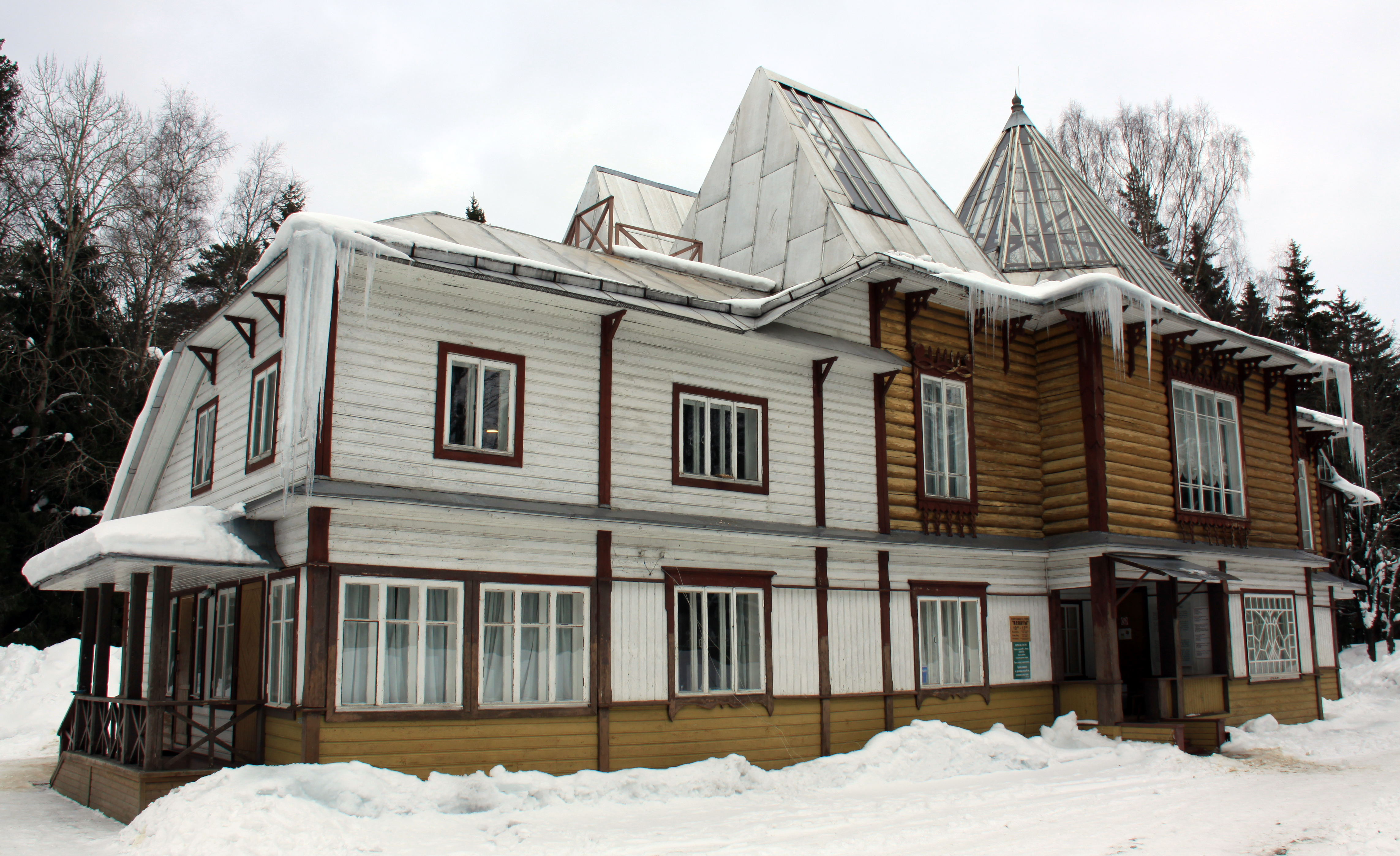 Repino, the home of the Ukrainian Russian artist Repin